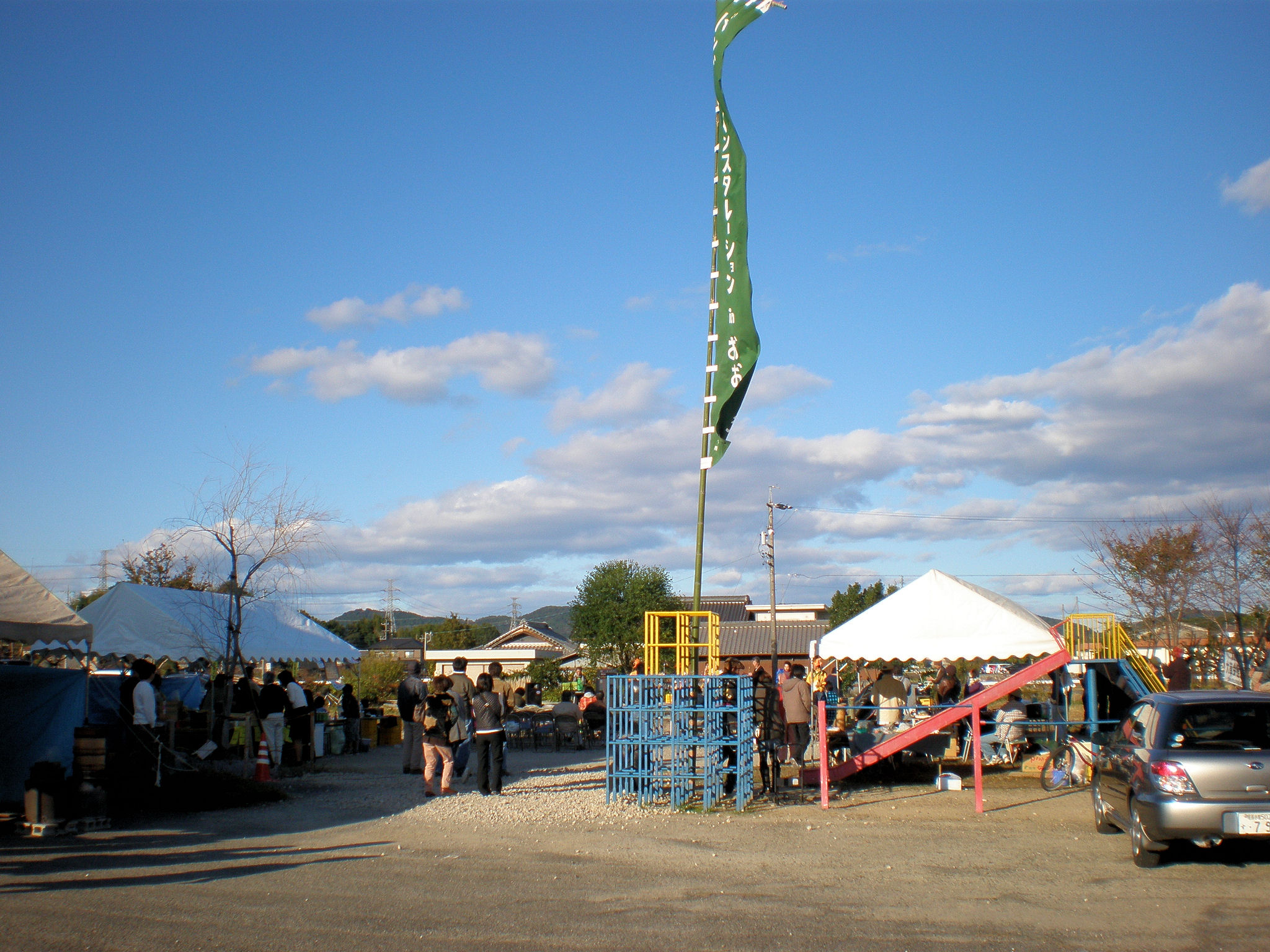 Bamboo Installation in Okusa, Komaki, Aichi Pref, Japan